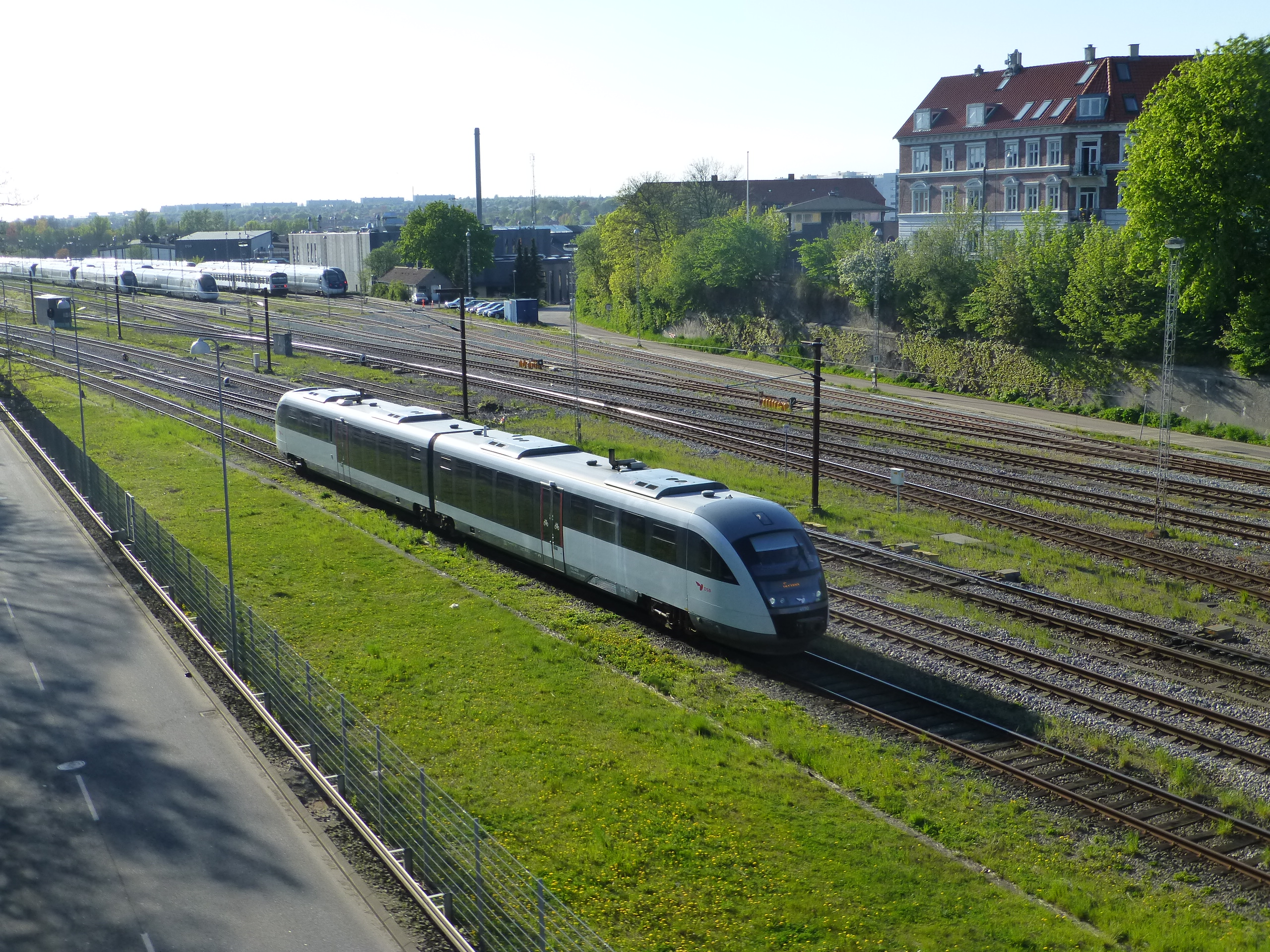 Diesel multiple unit DSB MQ in Aarhus in Denmark.